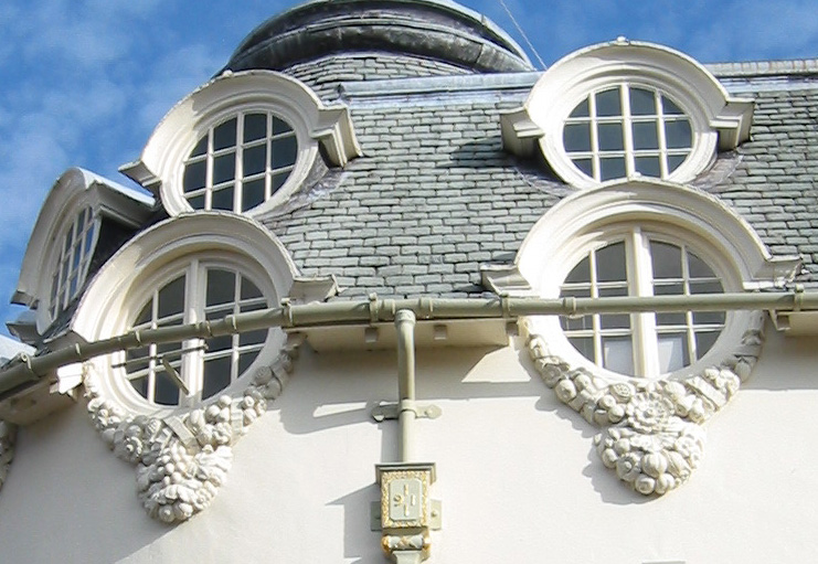 Dormer window detail of 1–5 Pillory Street, Nantwich, Cheshire